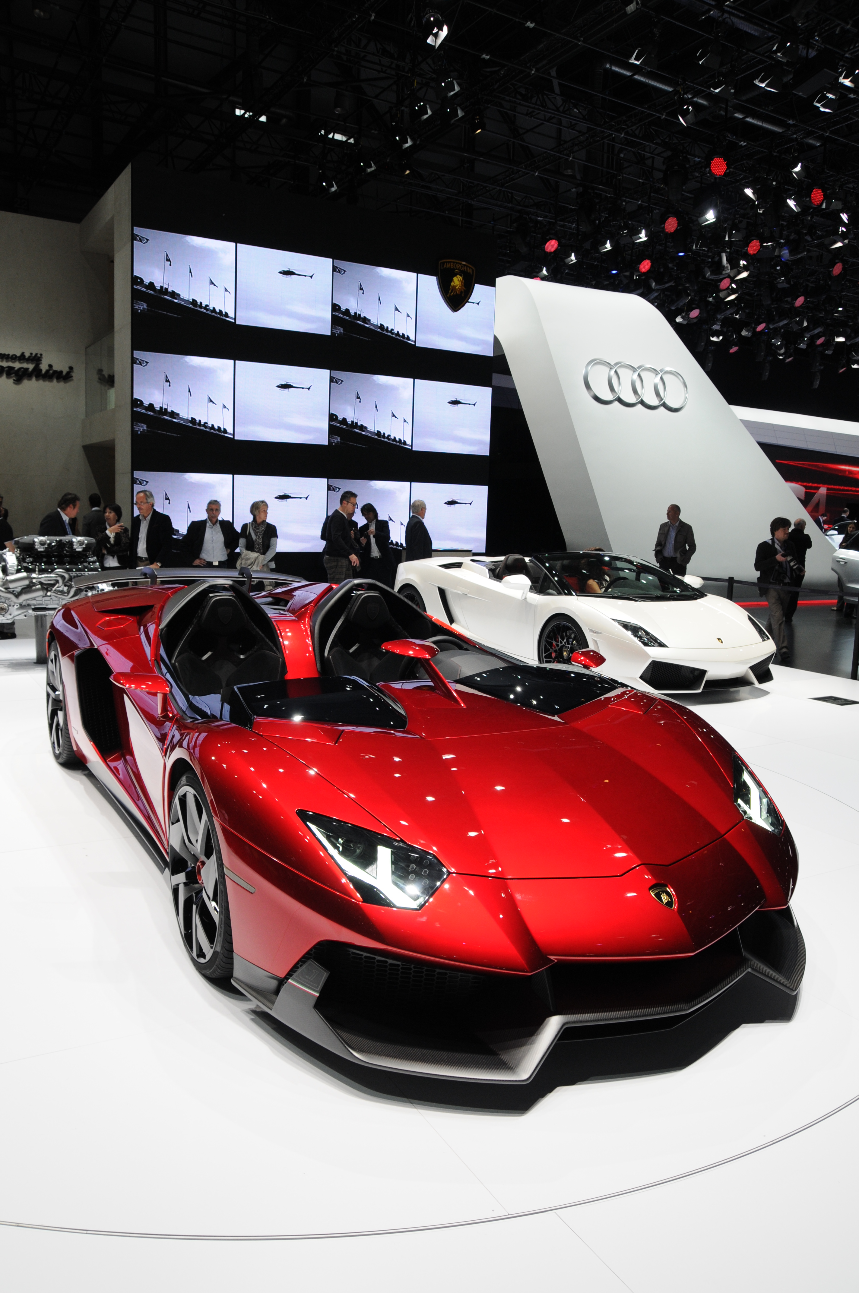 Geneva Motor Show 2012 (photos taken on the second press day)